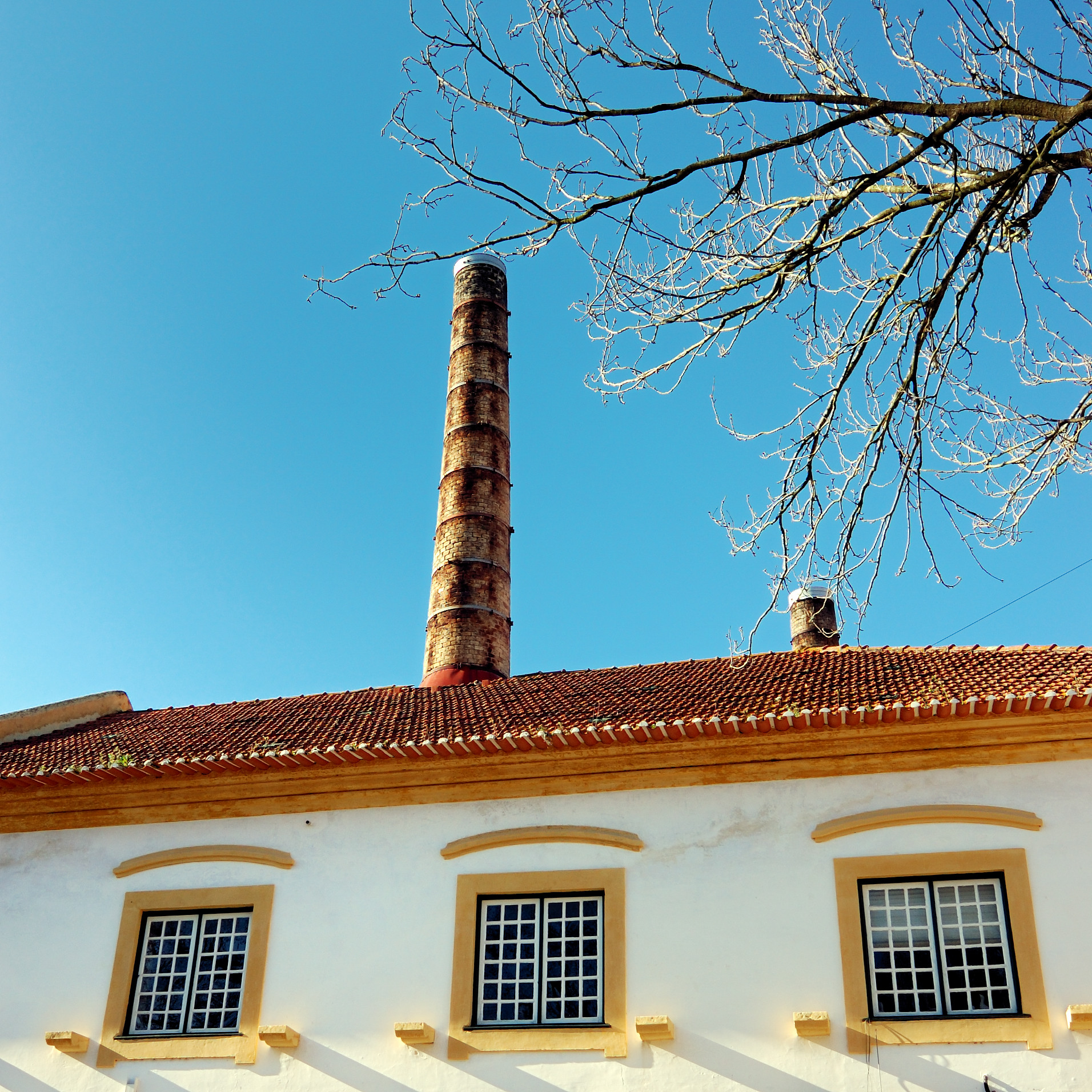 Vista Alegre's factory in Ílhavo, Portugal (2007).